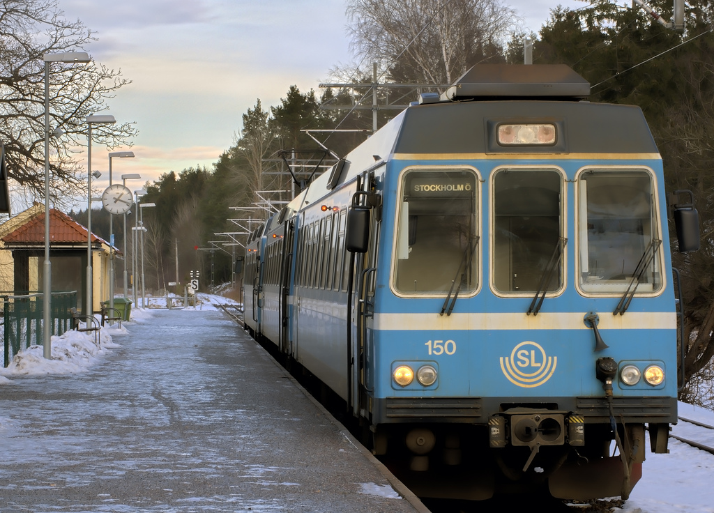 Train at terminal station Kårsta on the Roslagsbanan railway, Stockholm.